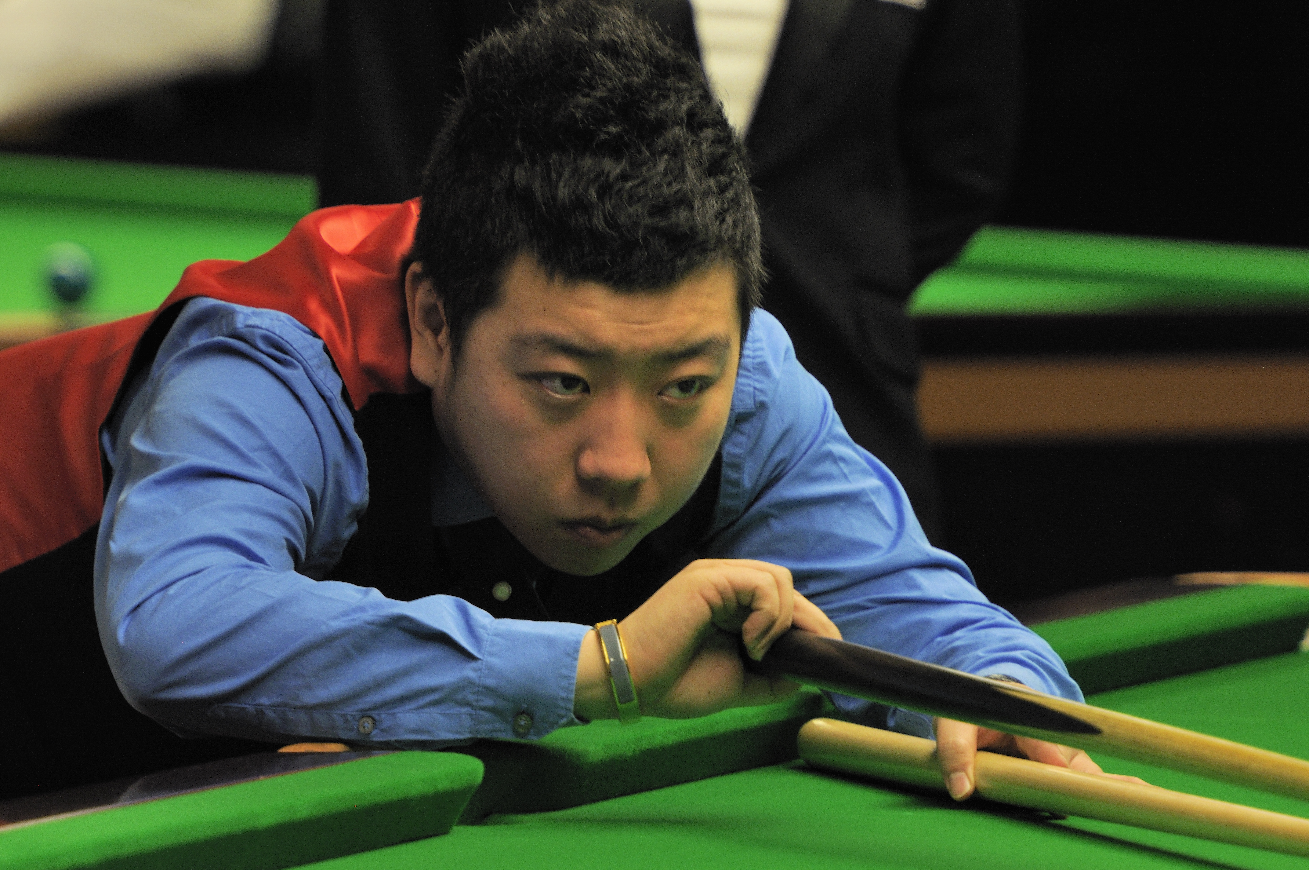 Picture taken in Berlin during the Snooker German Masters in 2014. Li Hang.